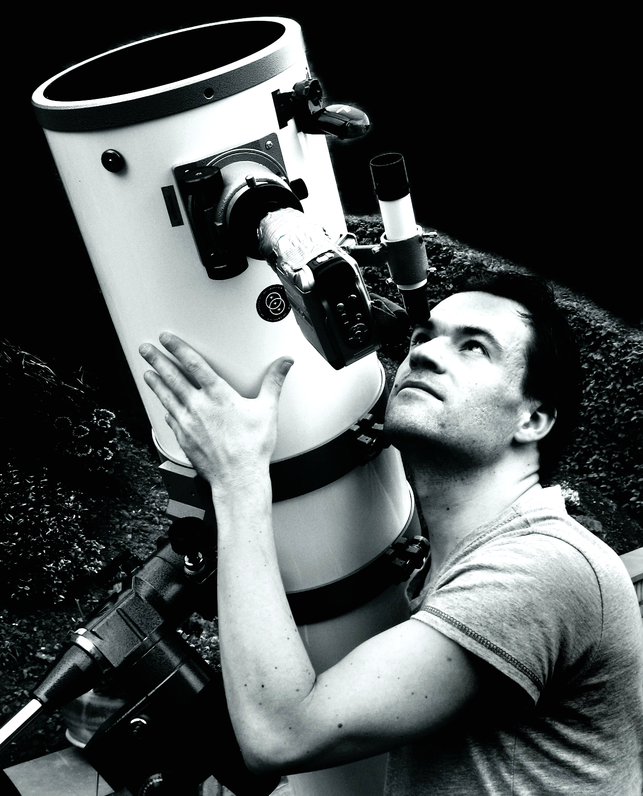 Ralf Vandebergh from the Netherlands. Astronomer, Astrophotographer and Journalist. Portrait by Mr. Servé Vaessen.